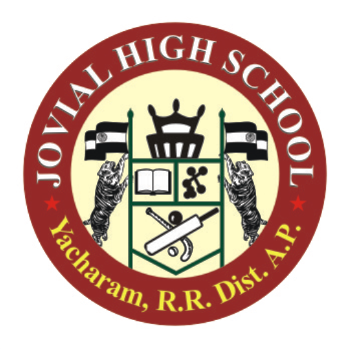 jovial high school logo